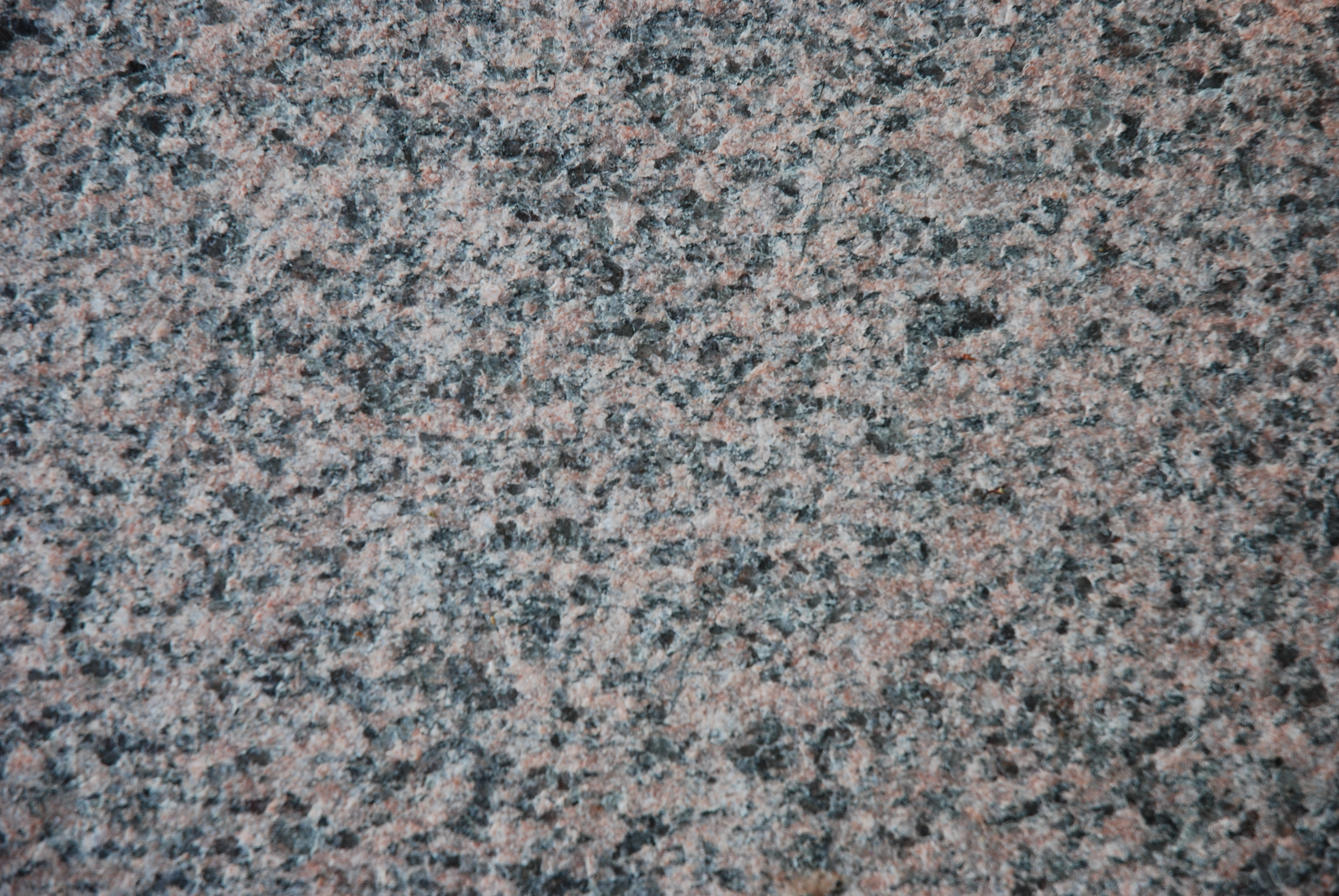 Polerad vätögranit Polished granite from Vätö, Sweden